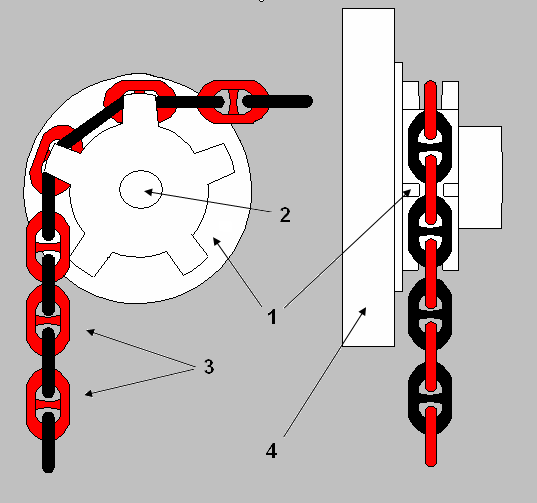 Windlass chain drive wheel